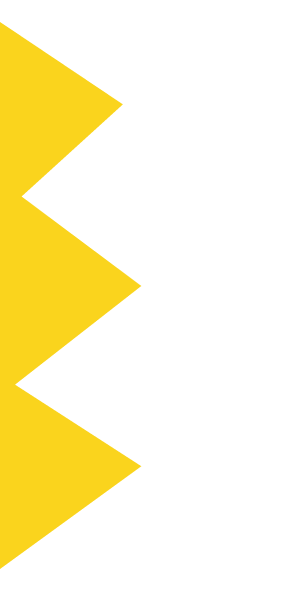 Based on David Nicolle "Armies of the Muslim Conquest" illustrations by Angus McBride. And Martin Hinds "The Banners and Battle Cries of the Arabs at Siffin" Al-Abhath XXIV